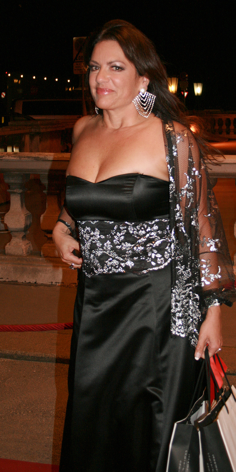 Christine Neubauer, winner of the award as Most Popular Actress, at the Romy TV awards (Hofburg Imperial Palace in Vienna)